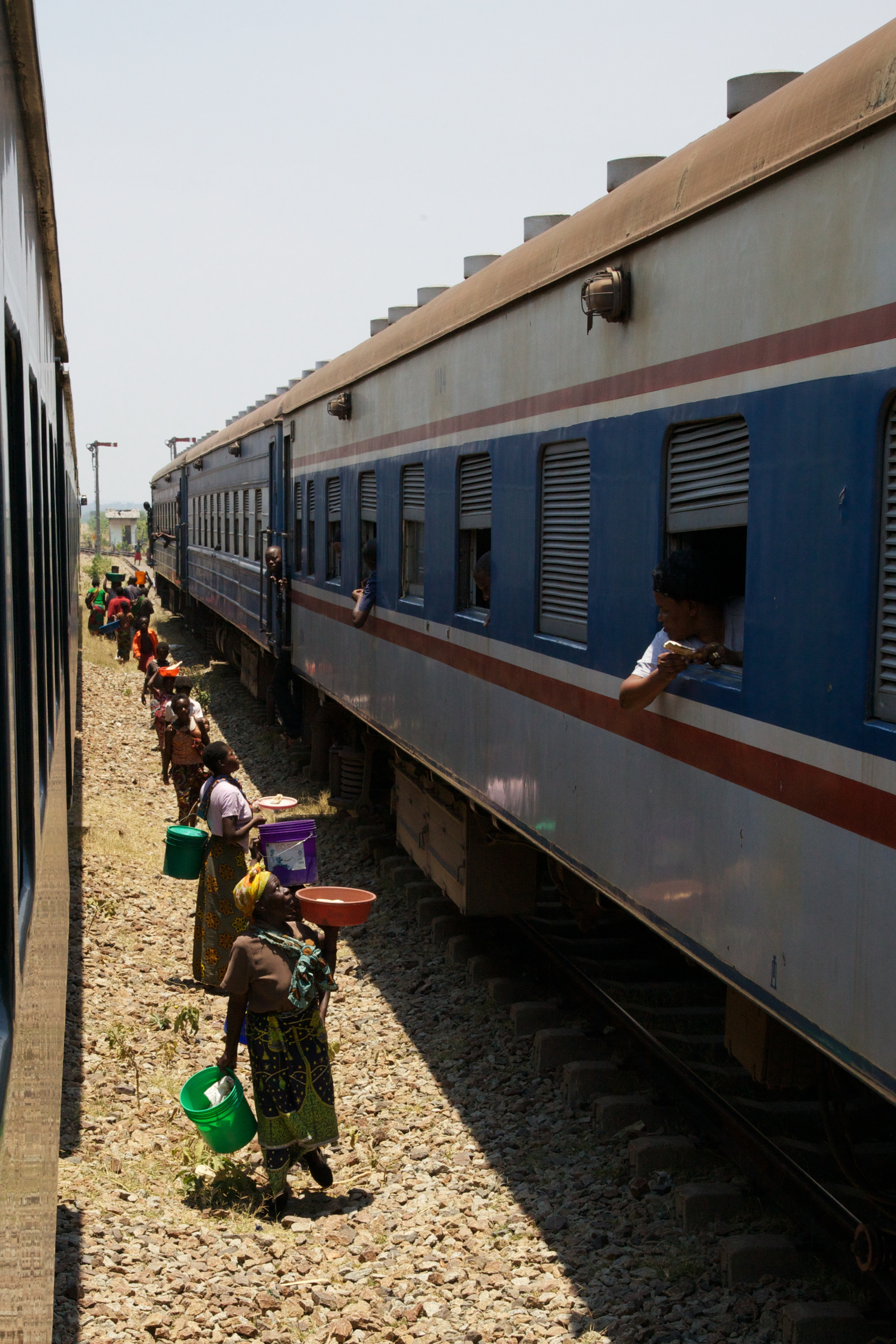 Serving the Mukuba Express passenger train on the Tazara Railroad in Zambia, Africa.